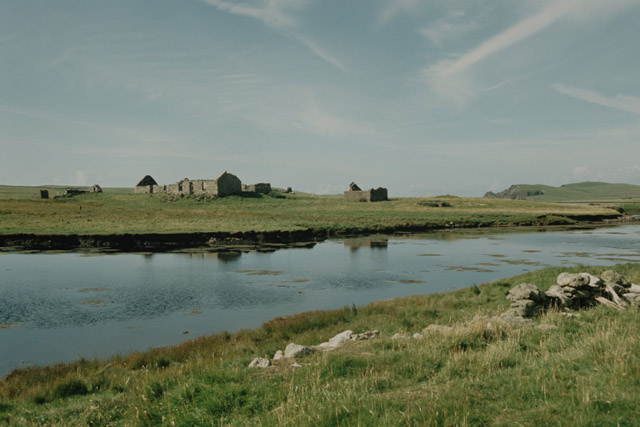 Symbister at East Burra, Shetland, Scotland